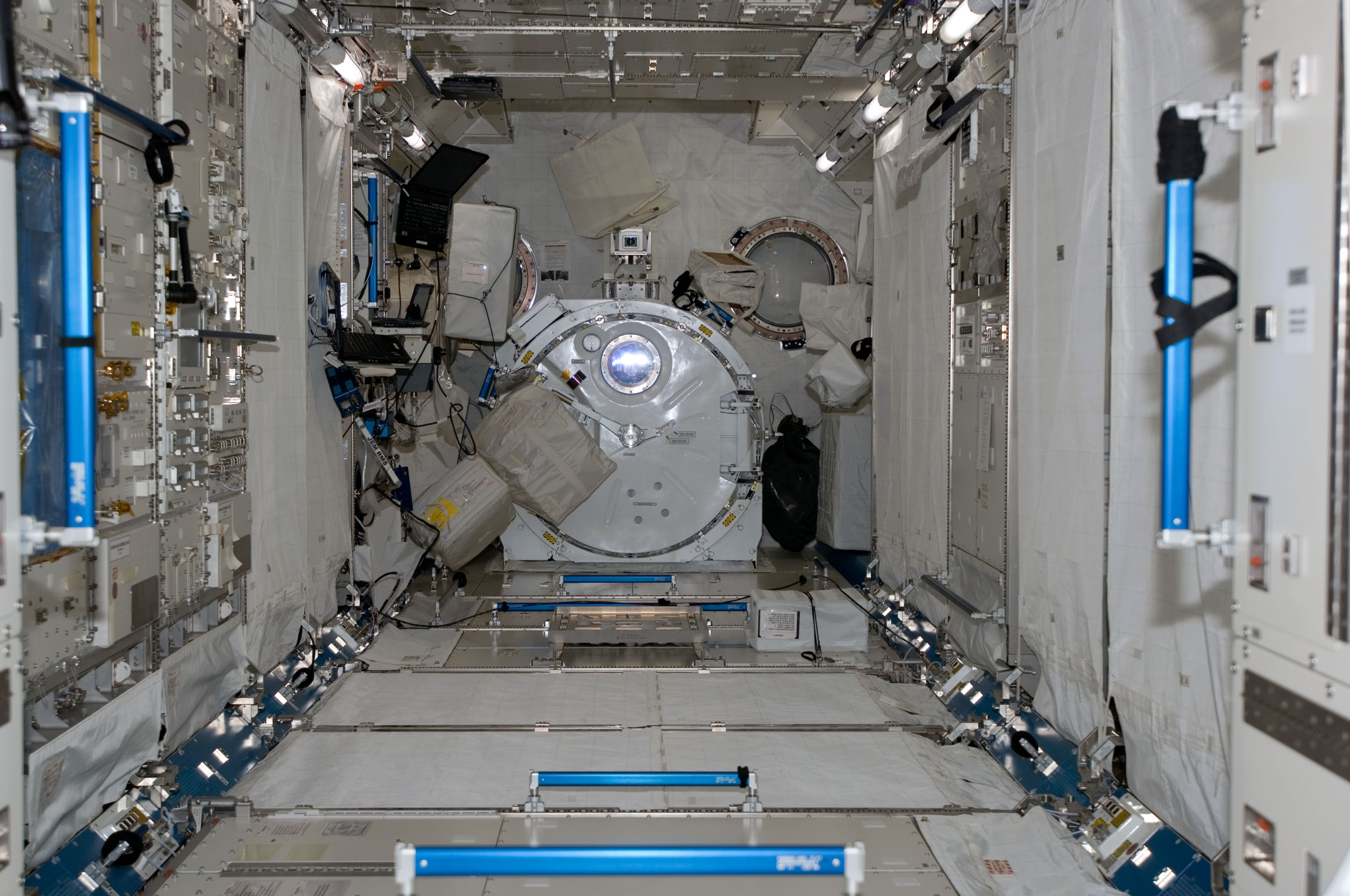 One of an ongoing series of digital still images documenting the Japanese Experiment Module, or JEM, also called Kibo, in its new home on the International Space Station, this view depicts Kibo's interior.